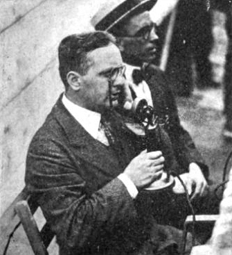 J. Andrew White (announcing) and Harry Welker at ringside broadcasting the Dempsey-Carpentier prizefight over station WJY.